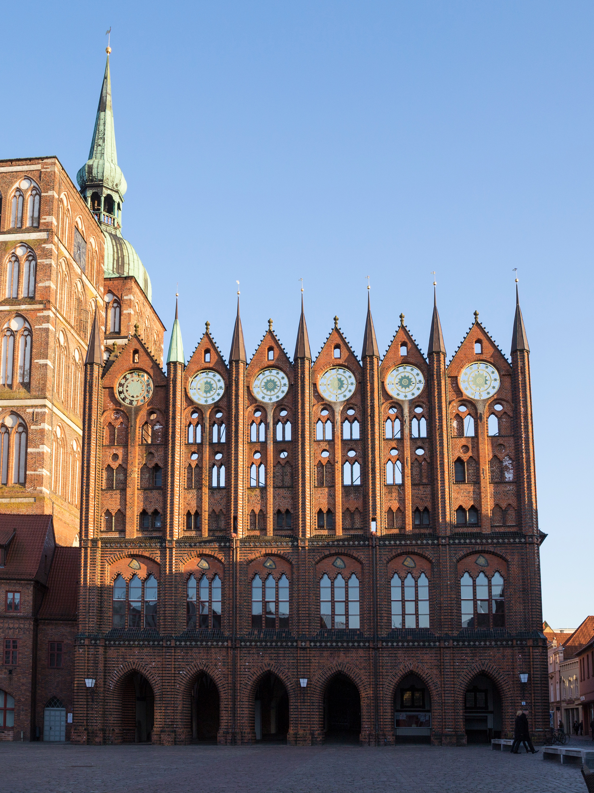 Stralsund, City Hall